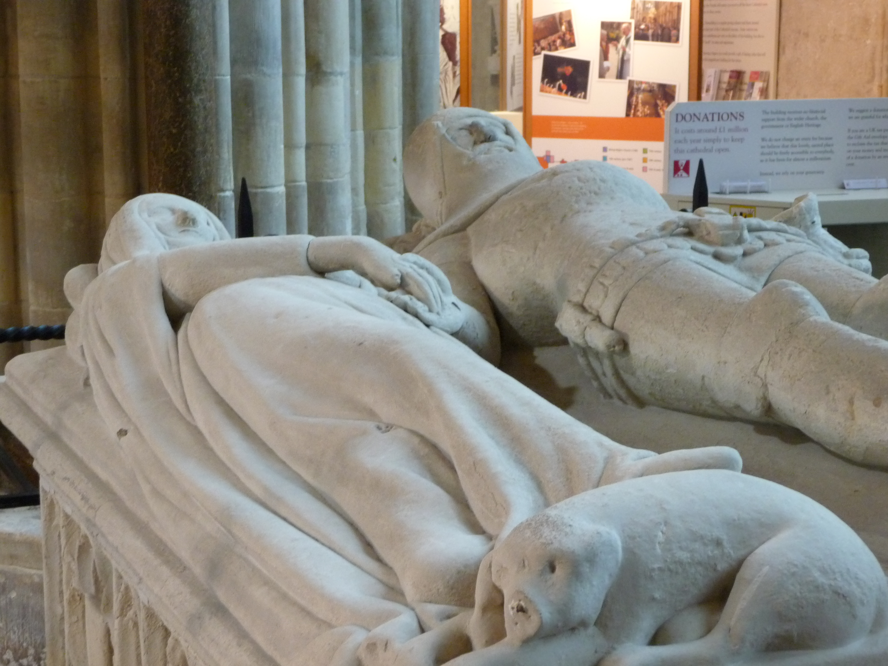 The Arundel Tomb at Chichester Cathedral, which inspired the poem An Arundel Tomb by Philip Larkin (Note: The effigies in Chichester Cathedral are attributed to Richard FitzAlan and Eleanor of Lancaster. FitzAlan and Eleanor were actually buried in Lewes Priory. Although Larkin called the effigies a "tomb", they are actually a "memorial". See Talk, Distinction needs to be made: Not a "tomb" but a "memorial".) The plaque in the cathedral reads as follows: An Arundel Tomb The figures represent Richard Fitzalan III, 13th Earl of Arundel (ca 1307-1376) and his second wife Eleanor, who by his will of 1375 were to be buried together "without pomp" in the chapter house of Lewes Priory. The armour and dress suggest a date near 1375; the knight's attitude is typical of that time, but the lady's crossed legs, giving the effect of a turn towards her husband, are rare. The joined hands have been thought due to "restoration" by Edward Richardson (1812-69), but recent research has shown the feature to be original. If so, the monument must be one of the earliest showing the concession to affection where the husband was a knight rather than a civilian.